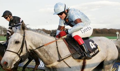 Robert Thornton taken at in December 2007 at Newcastle Racecourse.